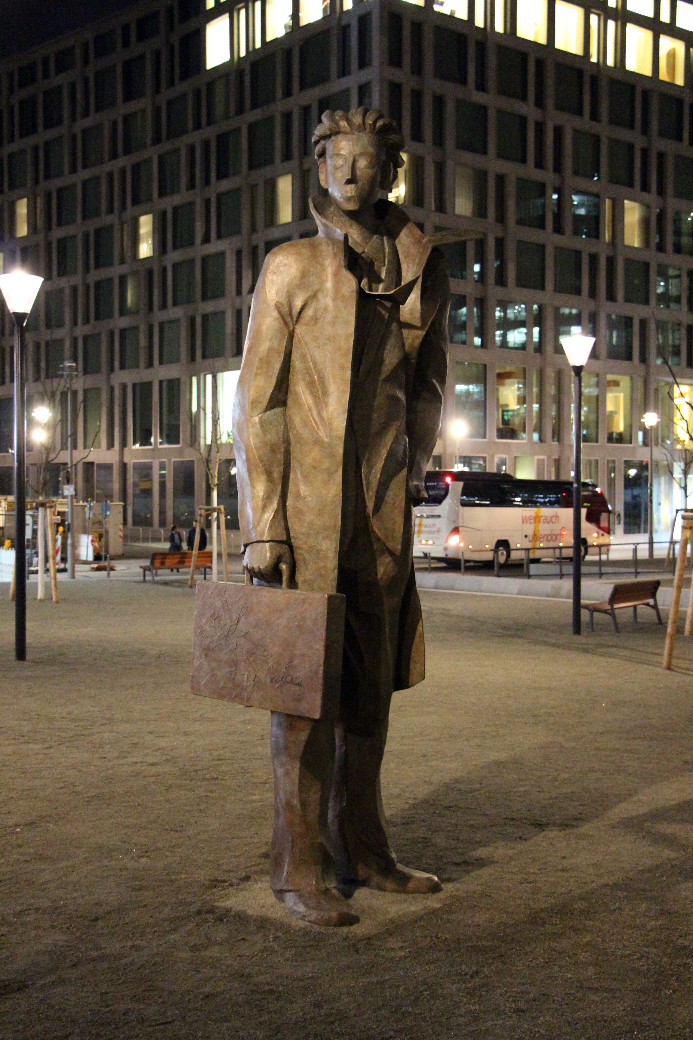 Abfahrt by Giampaolo Talani